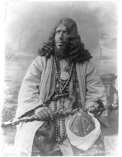 Sudan; Africa; Dervishes; Shelf.